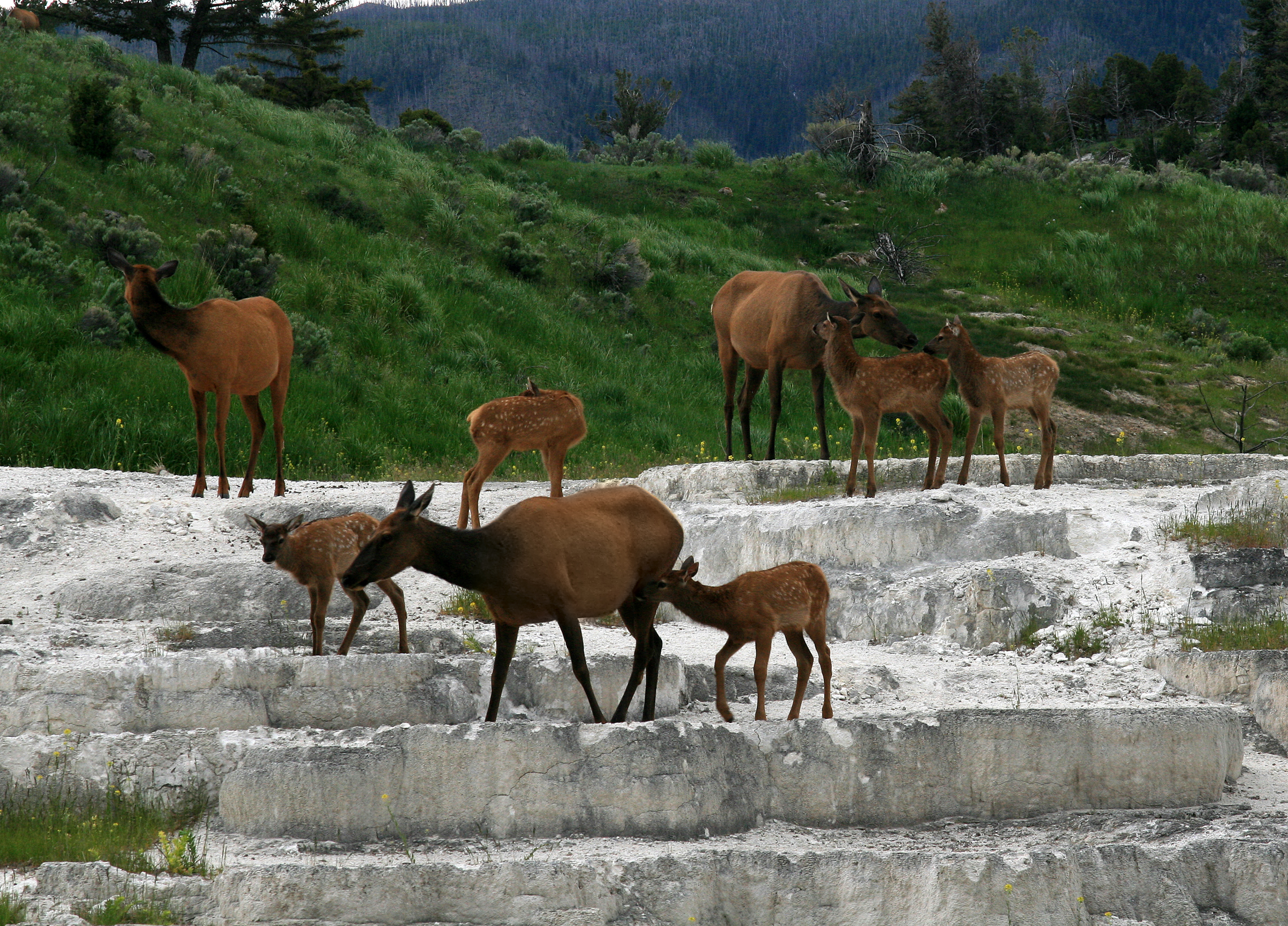 Elks, Cervus canadensis, at the Opal terrace at Mammoth Hot Springs, Yellowstone National Park, Montana, United States